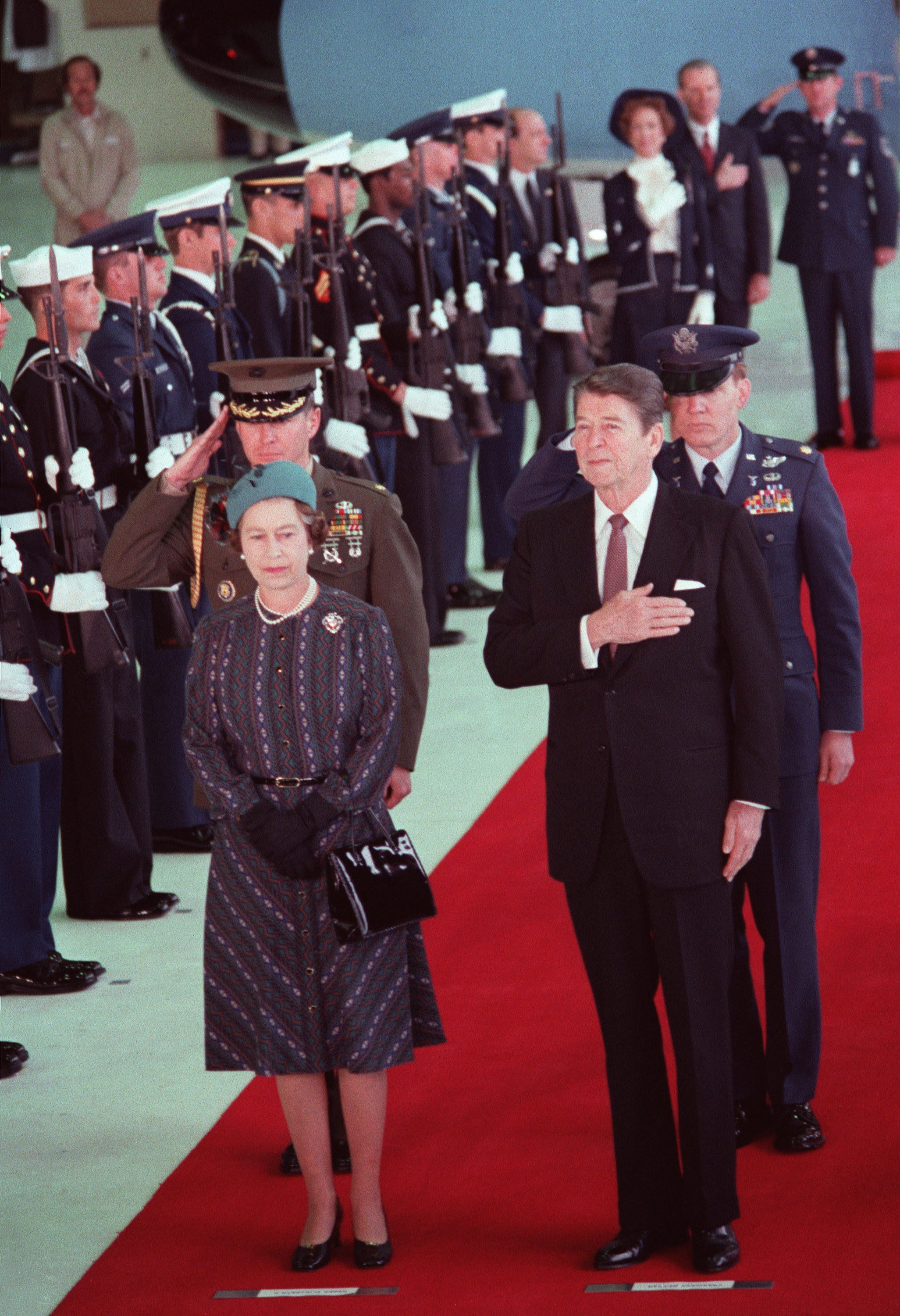 U.S. President Ronald Reagan stands with Queen Elizabeth II in Santa Barbara during a ceremony to honor her visit to the West Coast of the U.S.